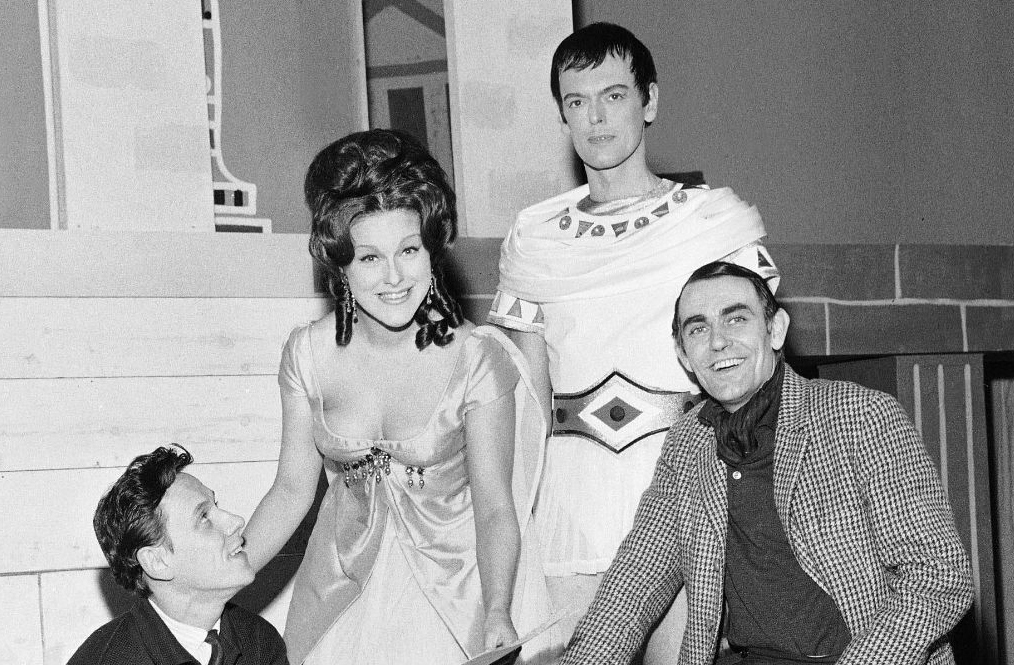 Photograph of the main cast and crew of a production of La belle Hélène by Jacques Offenbach in the Swedish Theatre of Helsinki. From left to right: Heikki Värtsi, Berith Bohm, Leif Wager, and Mogens Brix-Pedersen.